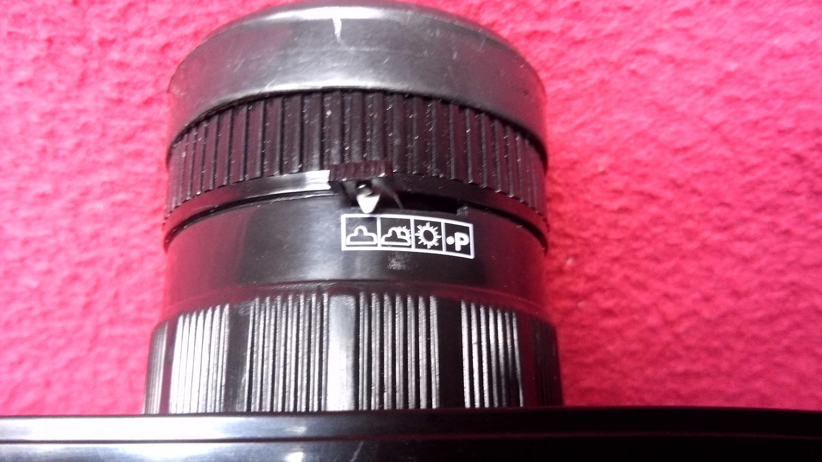 Cloudy, partially cloudy, sunny and Pinhole apertures for Diana F+